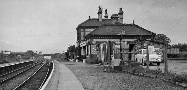 Buckley Junction Station. View southward, towards Wrexham; ex-Great Central (Wrexham, Mold & Connah's Quay section), Bidston/Chester (Northgate) - Wrexham (Central) line, junction of the original line from Connah's Quay. The station was called 'Buckley Junction' until 5/74, although passenger trains ceased to run to Connah's Quay about 1895. It remains open on the present surprisingly popular Bidston - Wrexham line.